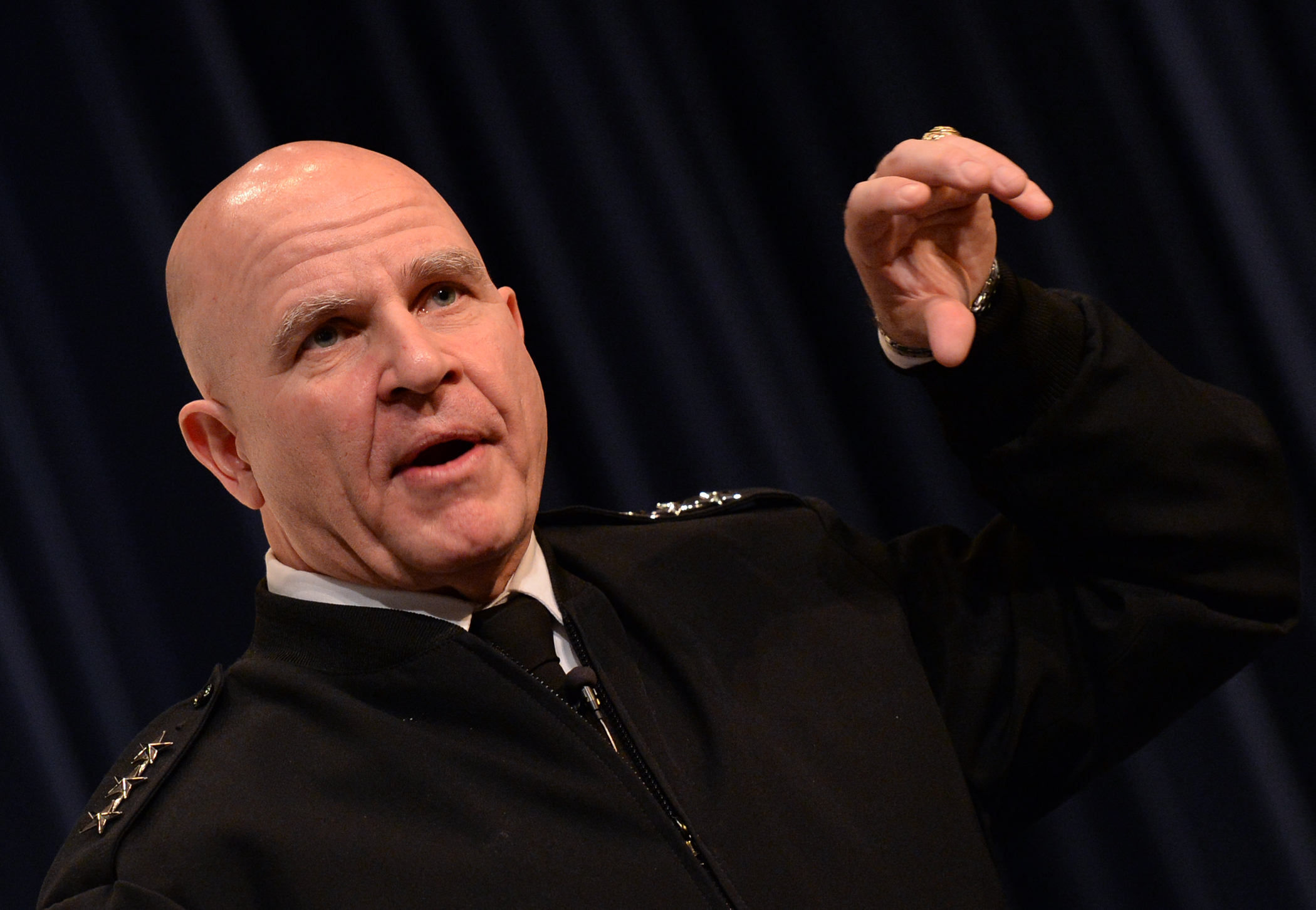 Lt. Gen. H.R. McMaster, director, Army Capabilities Integration Center, deputy-commanding general, Futures, U.S. Army Training and Doctrine Command, speaks to students, staff, and faculty during a visit to U.S. Naval War (NWC) College in Newport, R.I. During the visit, McMaster spoke with NWC President Rear Adm. P. Gardner Howe III, and provided an address to students currently attending the college.